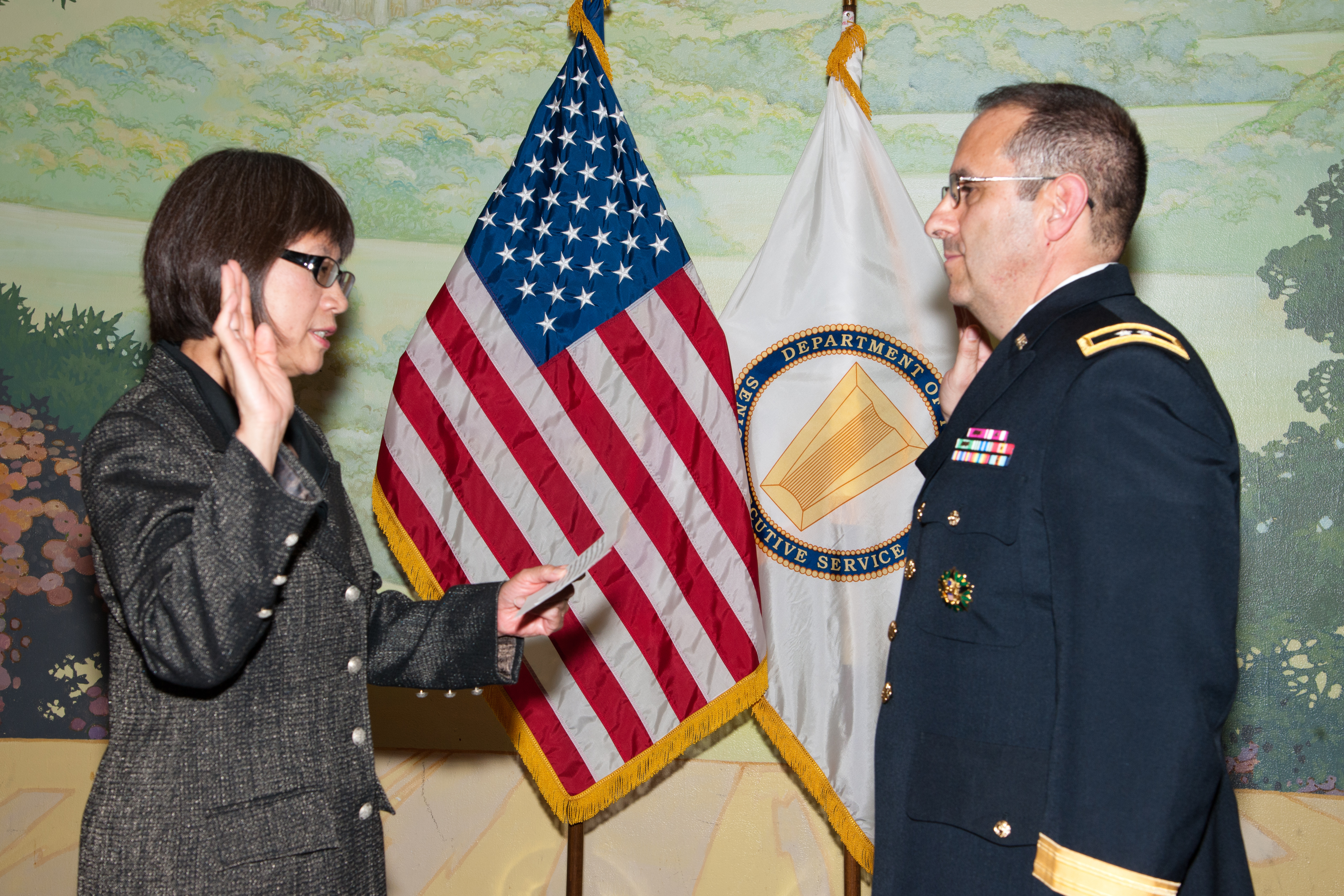 Heidi Shyu, Assistant Secretary of the Army (Acquisition, Logistics and Technology), hosted the promotion ceremony of Brig. Gen. Harold J. Greene at the Fort Myer Officers Club, August 30, 2012